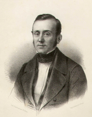 Portrait of Adolphe Billault (1805-1863), french statesman